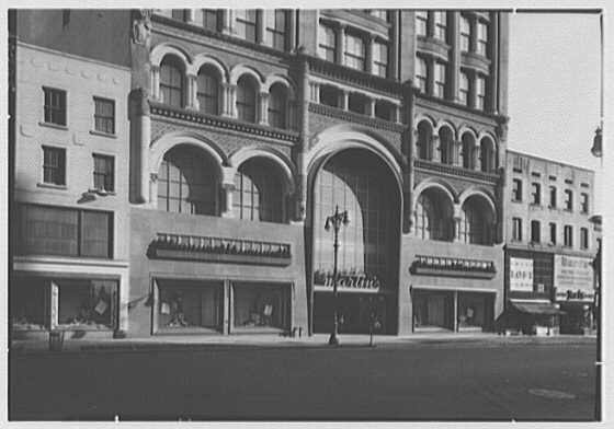 "Martin's department store, business on Fulton St., Brooklyn, New York. Lower section from left, horizontal"